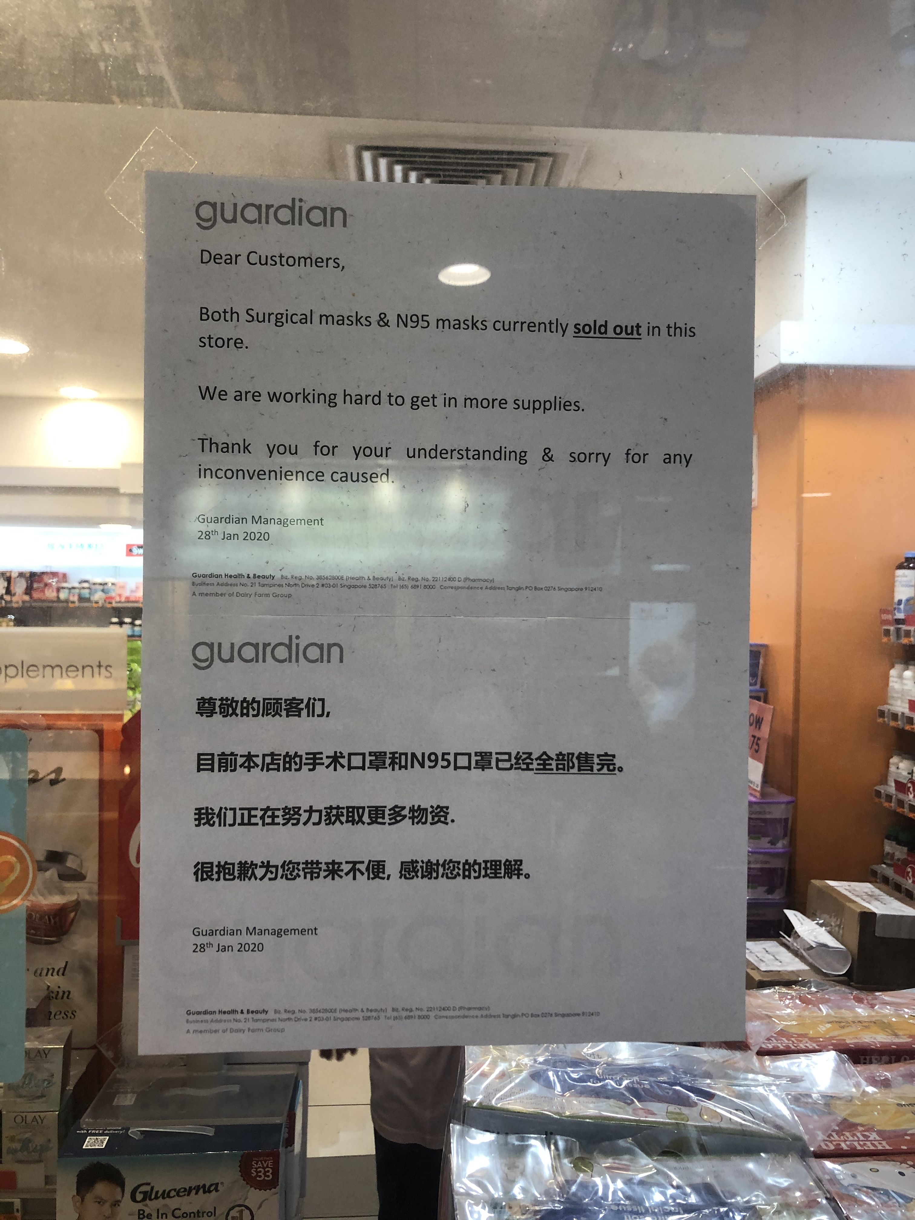 Due to the breakout of new Coronavirus, all masks sold out in Guardian Bukit Panjang Singapore